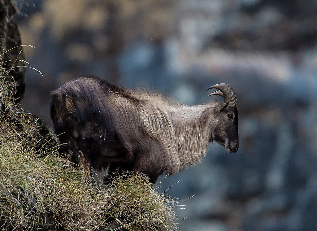 Himalayan_Tahr_of_Kedarnath_Wildlife_Sanctuar